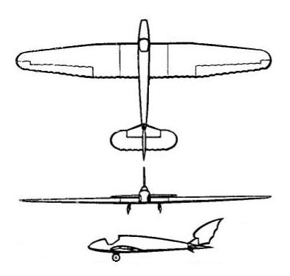 Drawing glider "Dove" design Antonova